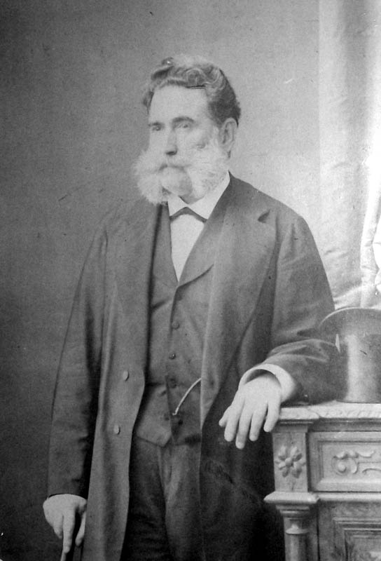 Portrait of Eustoquio Díaz Vélez, Jr. (1819-1909)